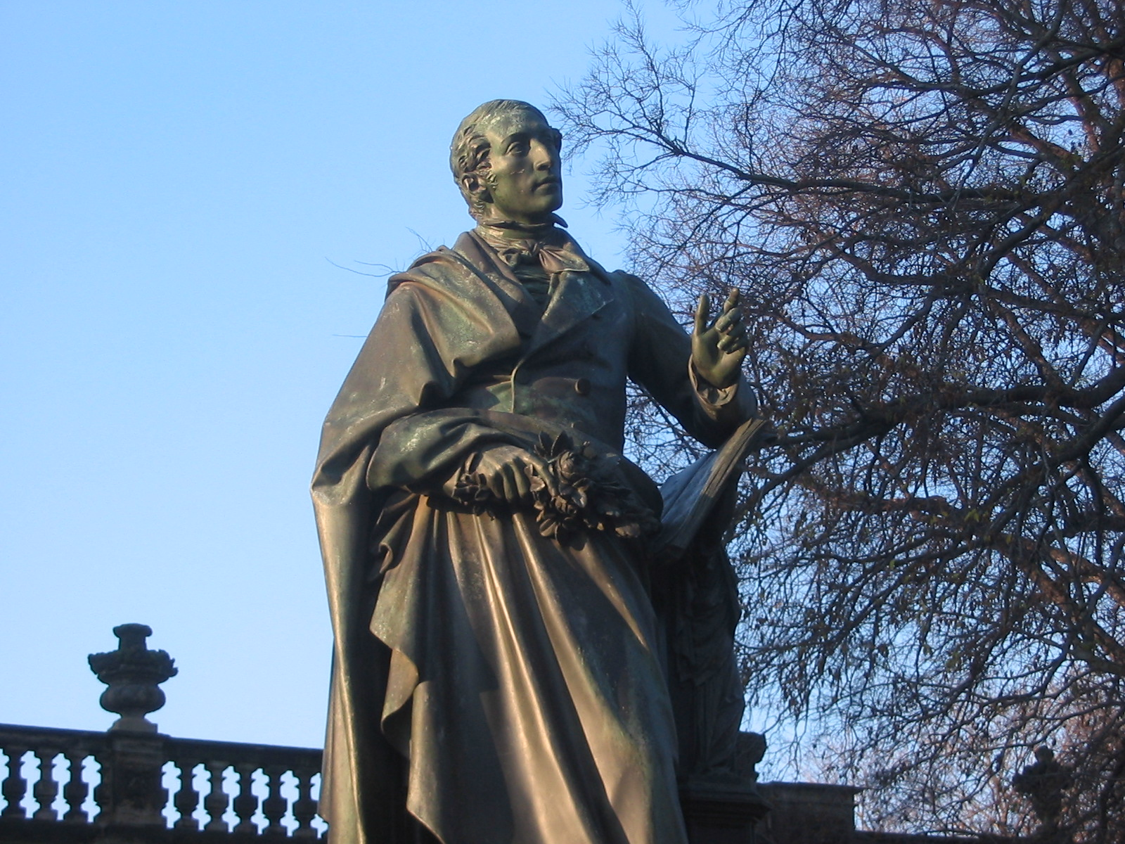 Statue of Carl Maria von Weber at Theaterplatz, Dresden, sculpted by Ernst Rietschel between 1855-1860Carl Maria von Weber